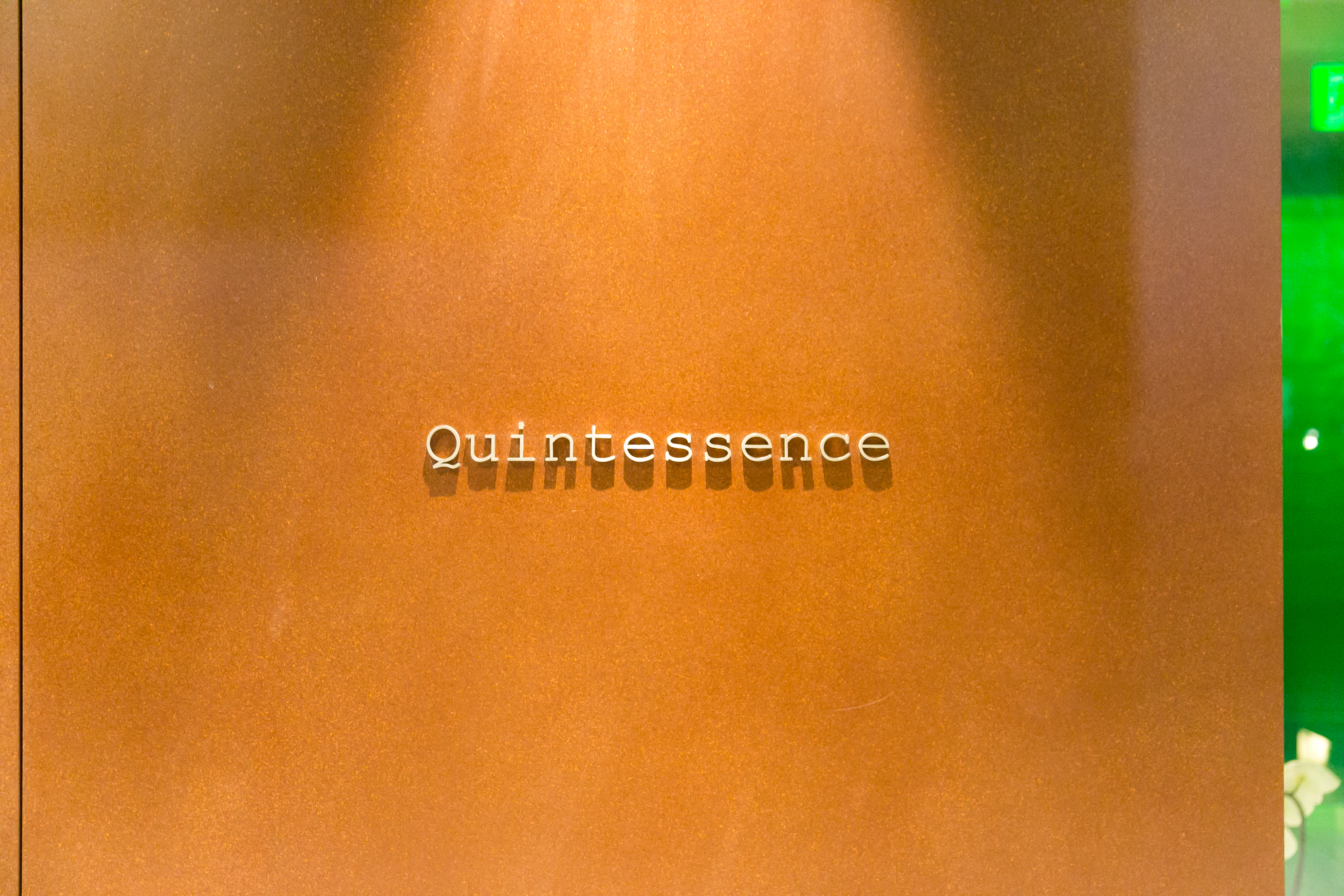 Quintessence, Tokyo, JPN Date Visited: December 23, 2014 City Foodsters Facebook | Twitter | Instagram